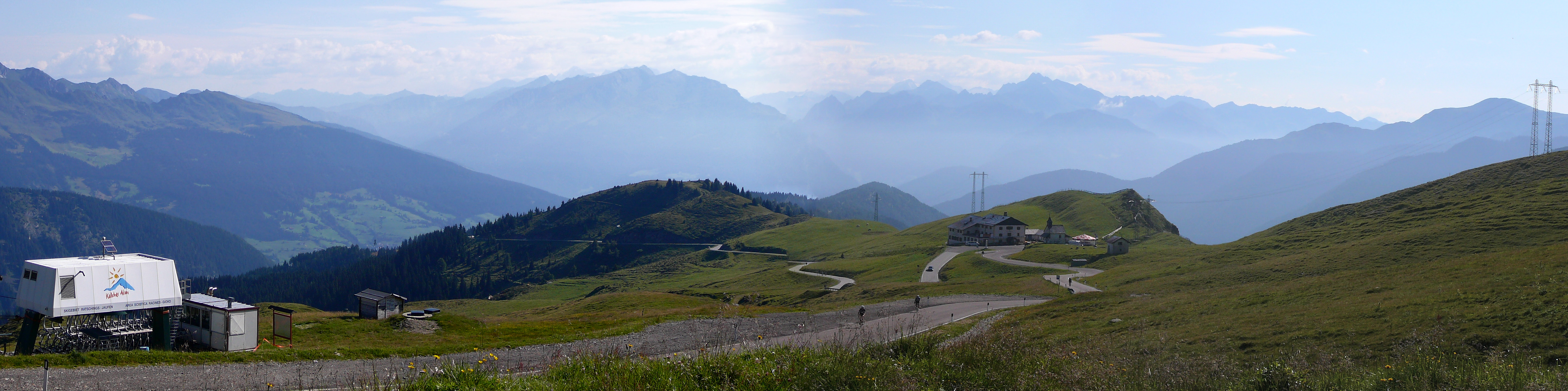 Jaufenpass, South Tyrol